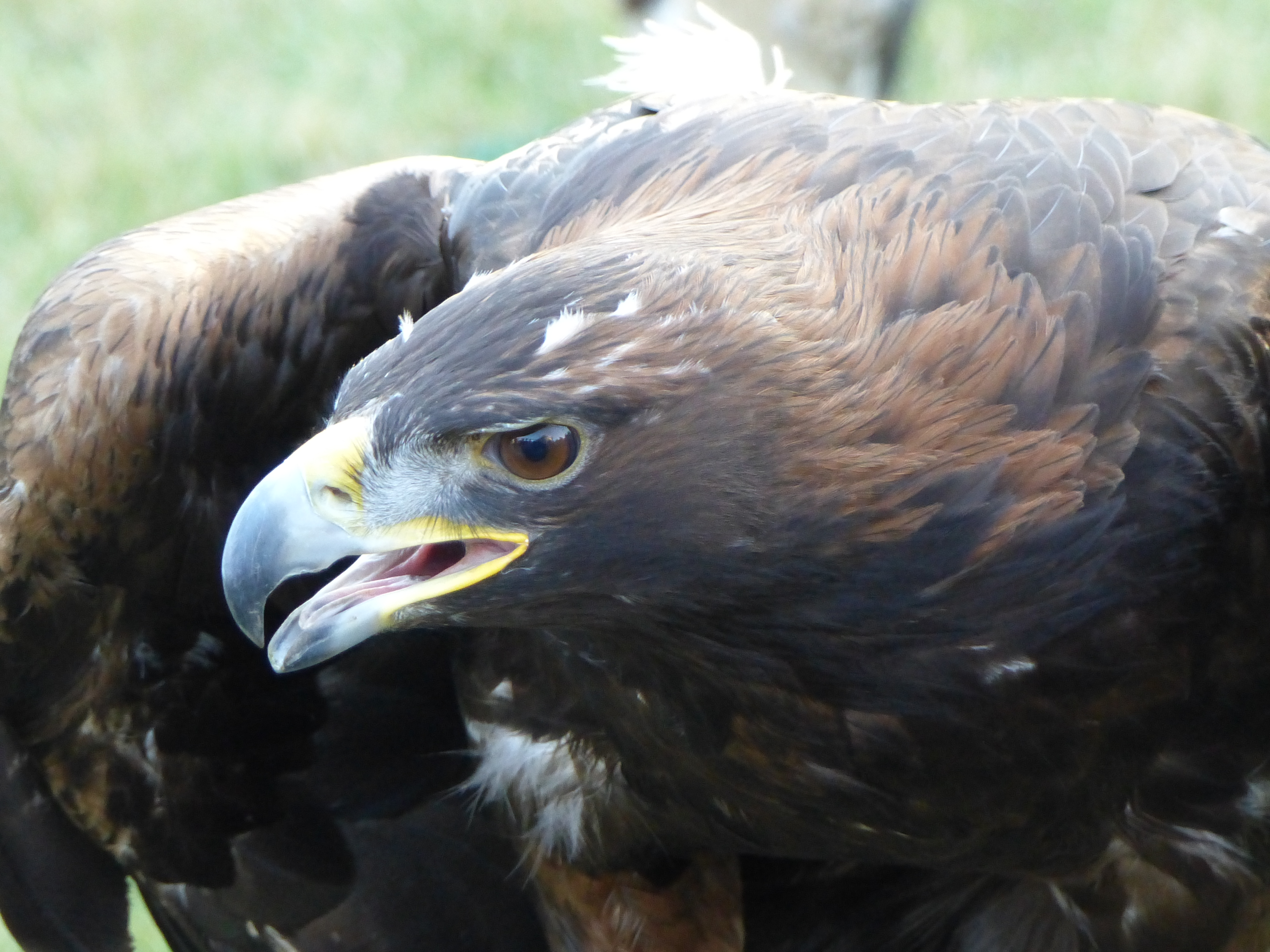 Taken on the 1st of April, 2017. Várkert Bazár, Budapest, Hungary, Central Europe. Pont Festival. Falconry. huː Szirti sas.